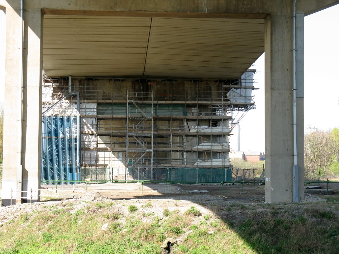 This is a view through the reinforced concrete pillars of the northern side of the A19 Tees Viaduct showing the continuing work repairing the effects of corrosion on the structure and the GRP panelling attached underneath the roadway.